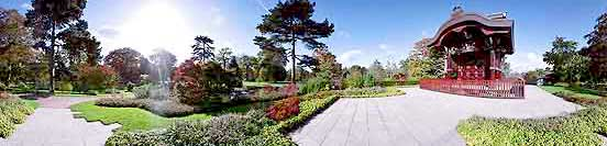 A 360° view of the gardens around the Japanese Gate at Kew Gardens, London